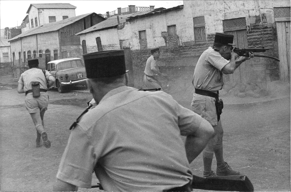 Armies in Djibouti are holding a gun and battling with men who disturbs peace in the area.